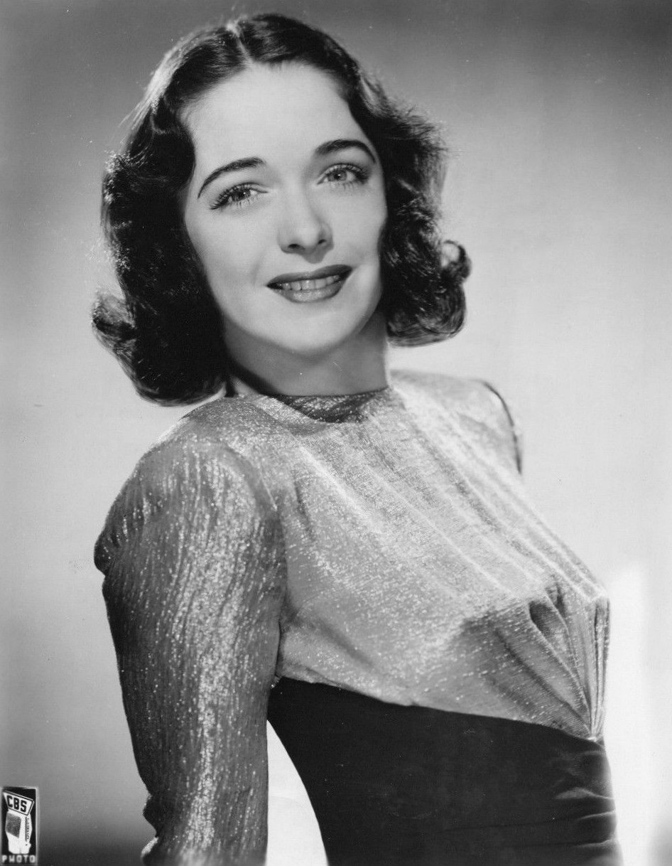 Photo of actress Julie Stevens.